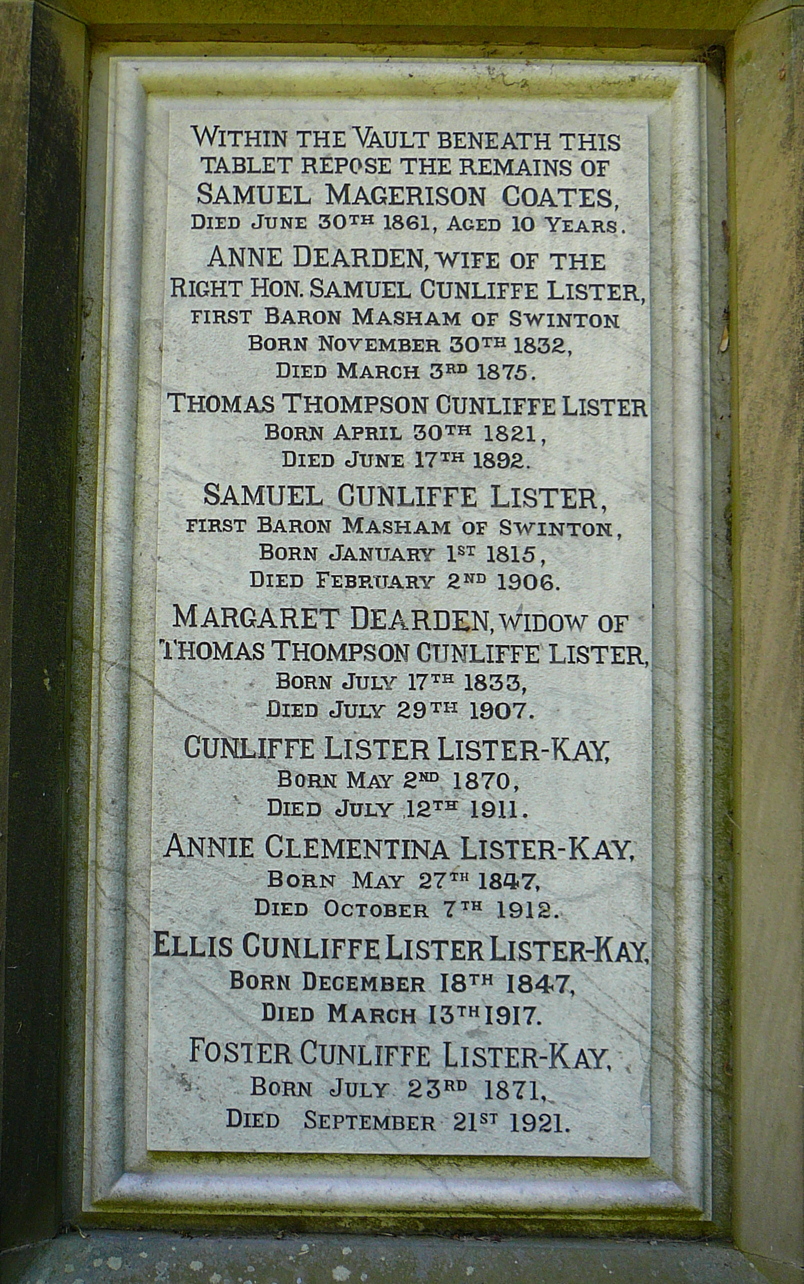 Memorial to Samuel Cunliffe Lister (of Bradford's Lister Park) and family, Addingham.